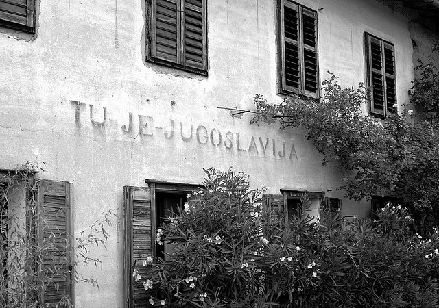 House with the inscription Tu je Jugoslavija 'This is Yugoslavia' (literally, 'Here [it] is Yugoslavia')